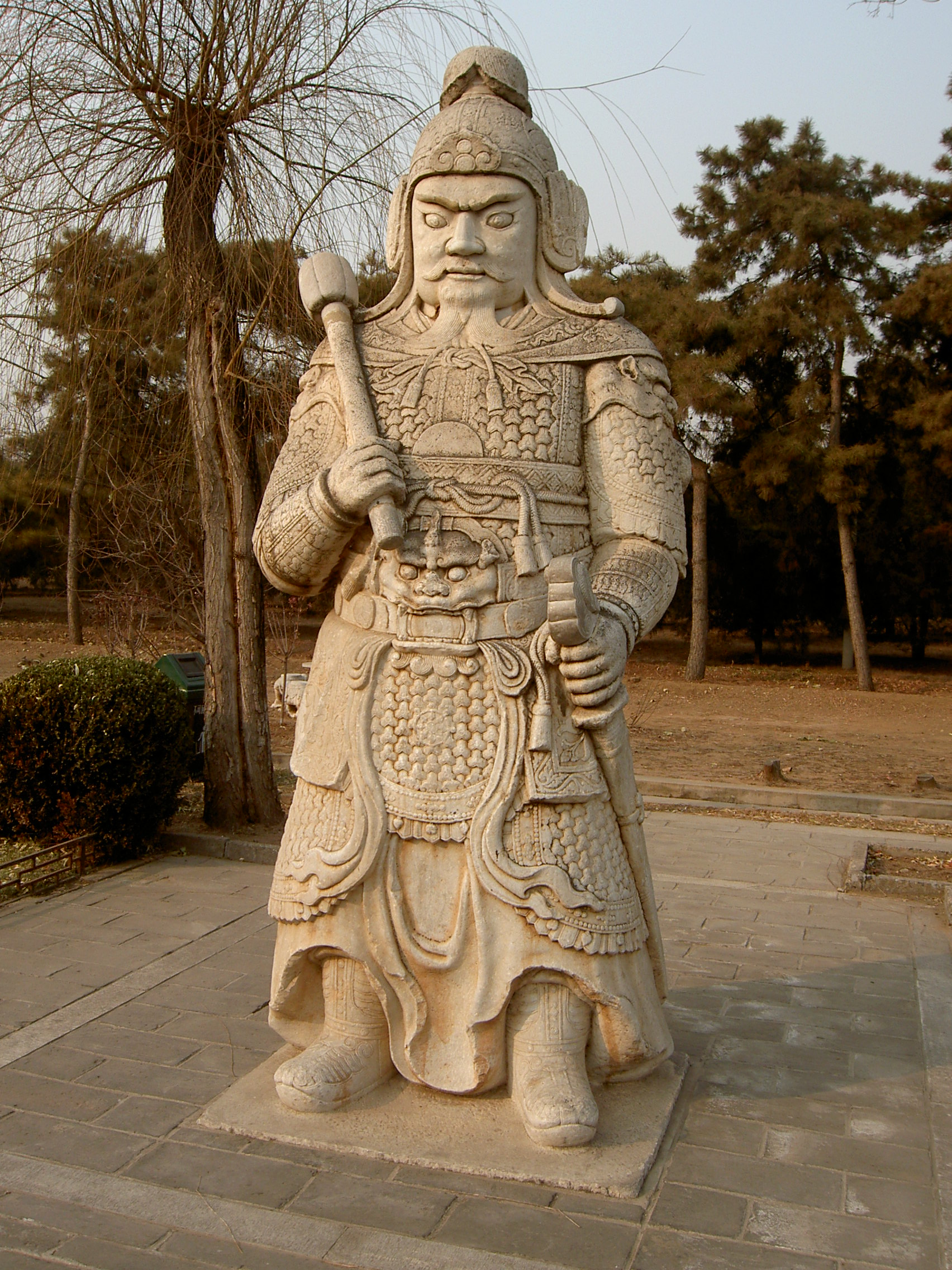 author : ofol date 29-12-2005 voie des âmes, Changping, région de pékin "ways of souls" tombs of the Emperors of the Ming Dynasty (AD 1368 to 1644). 50km north west of Beijing, in Changping. beijing region, ming graves, way of souls